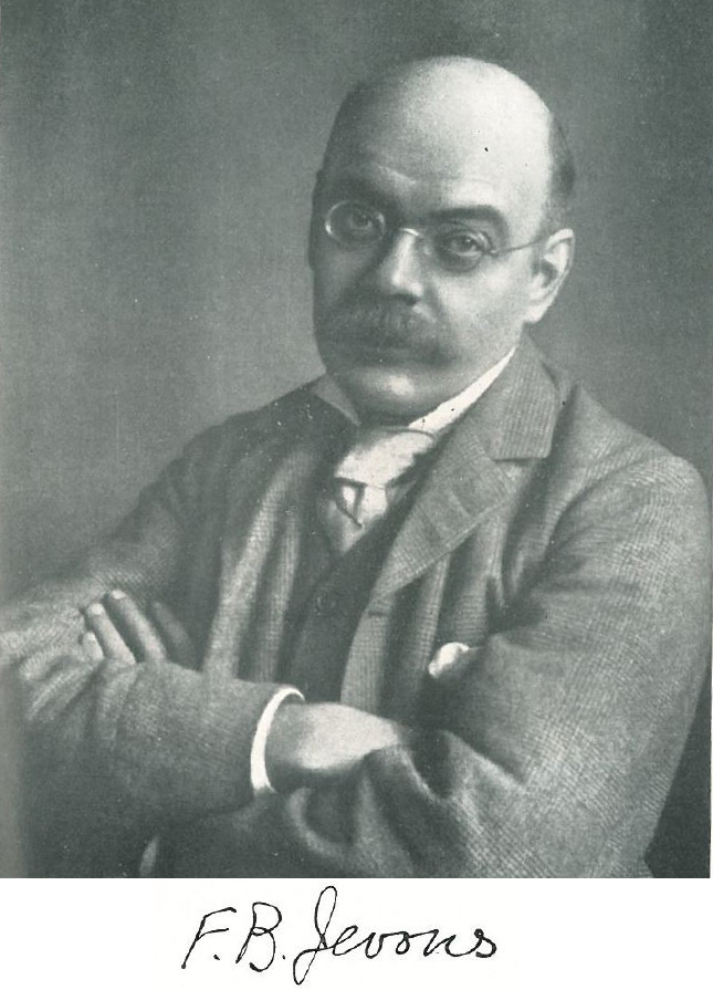 Frank Byron Jevons Portrait and autograph from out-of-copyright material supplied by Durham University